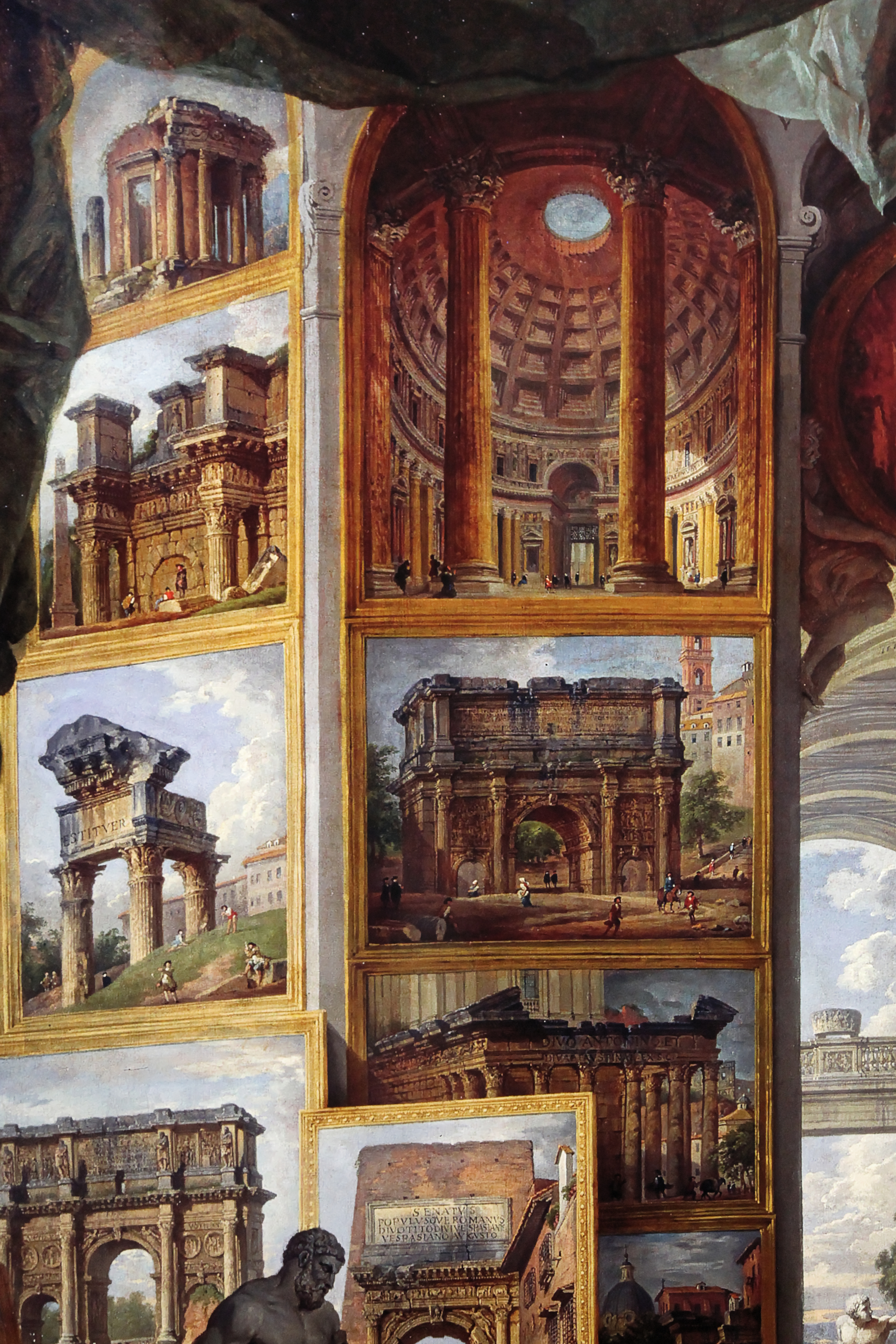 Ancient Rome by Giovanni Paolo Pannini, Marseille version, "Der schöne Schein" exhibition of replicas of well-known artwork in the Gasometer in Oberhausen